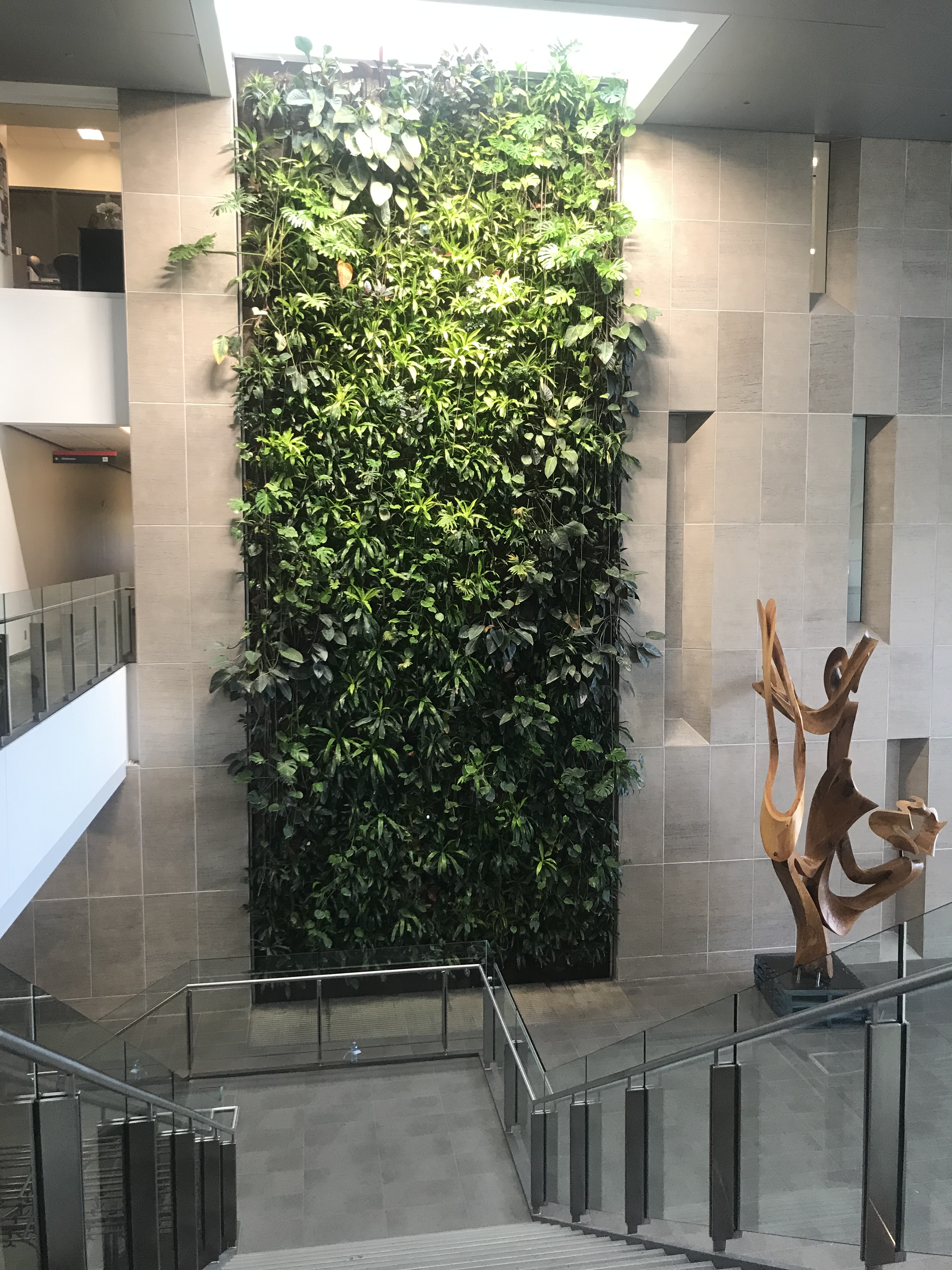 Living wall at Richcraft Hall, Carleton University